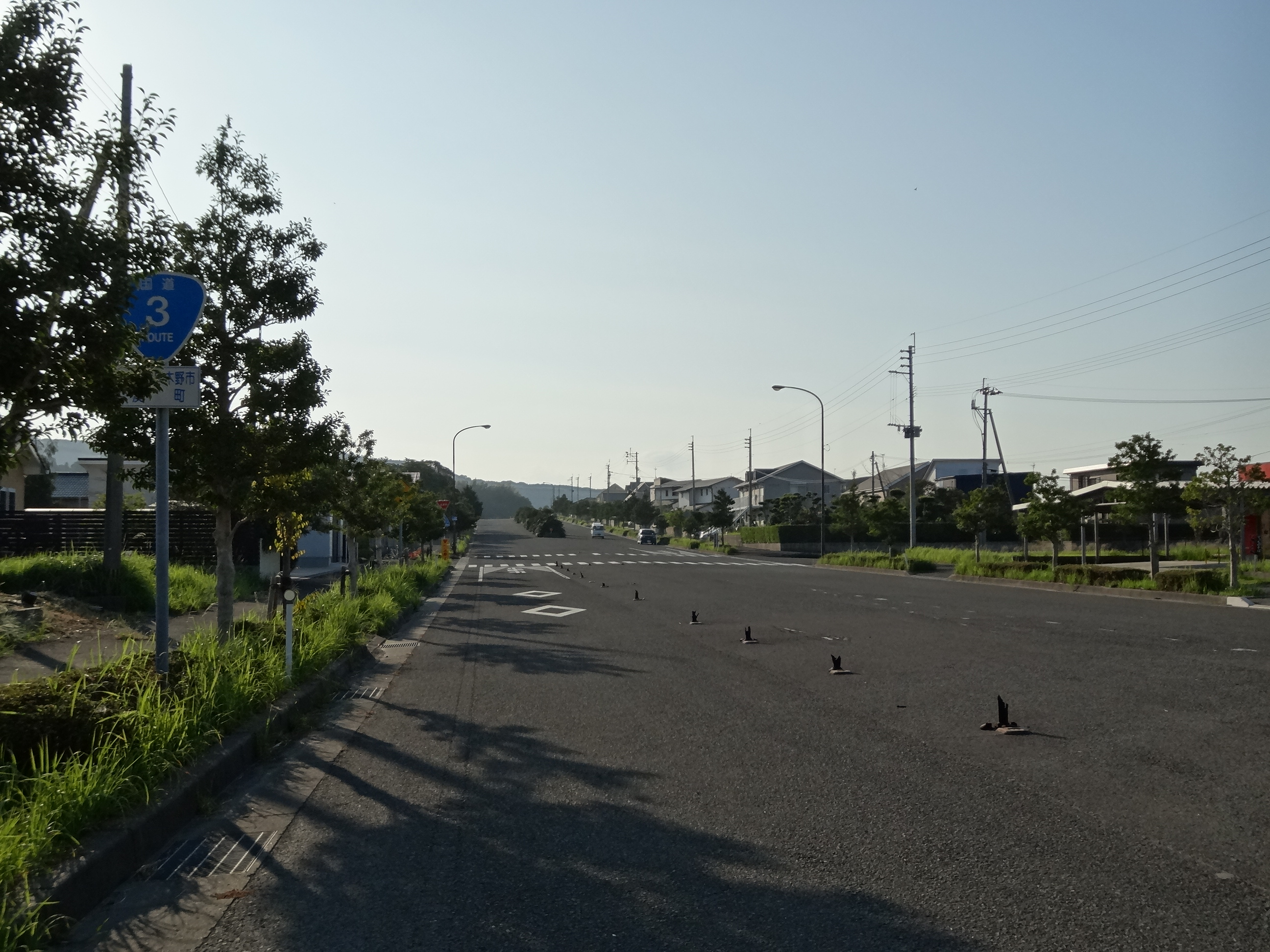 National Route 3 Ichiki Bypass in Ichikikushikino City Kagoshima Prefecture, Japan.)